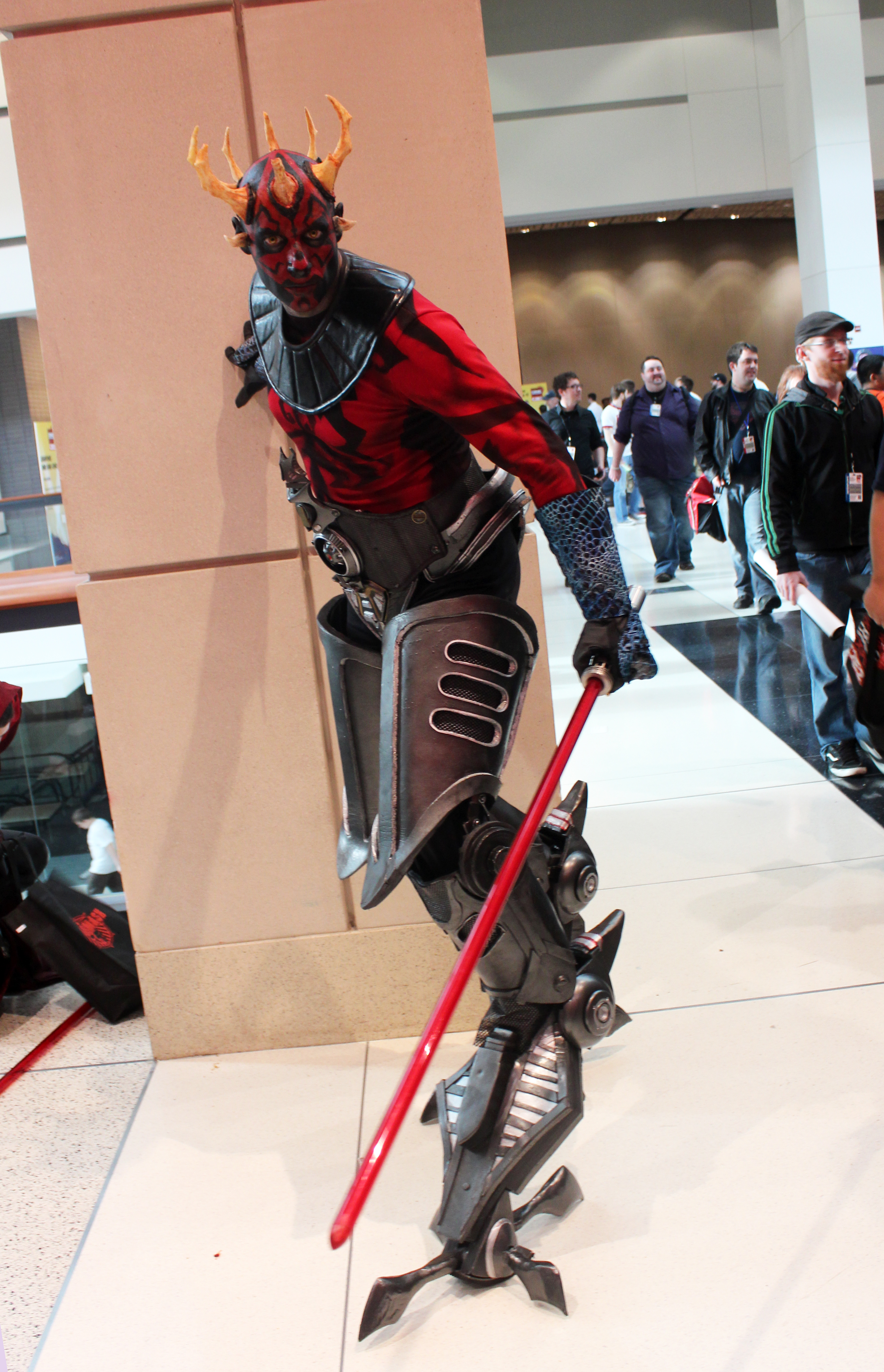 Cosplay at the 2013 Chicago Comic & Entertainment Expo (C2E2).